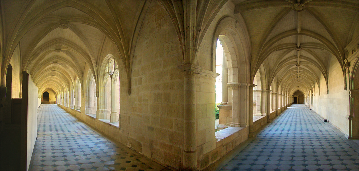 Fontevraud Abbey, Maine-et-Loire, Pays de la Loire, France. The cloister galleries.